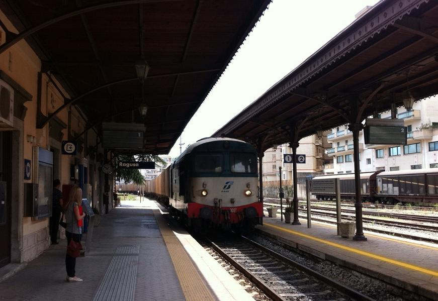 Locomotive FS Class D443 - 1021in transit at Ragusa (Sicily) in June 2011.